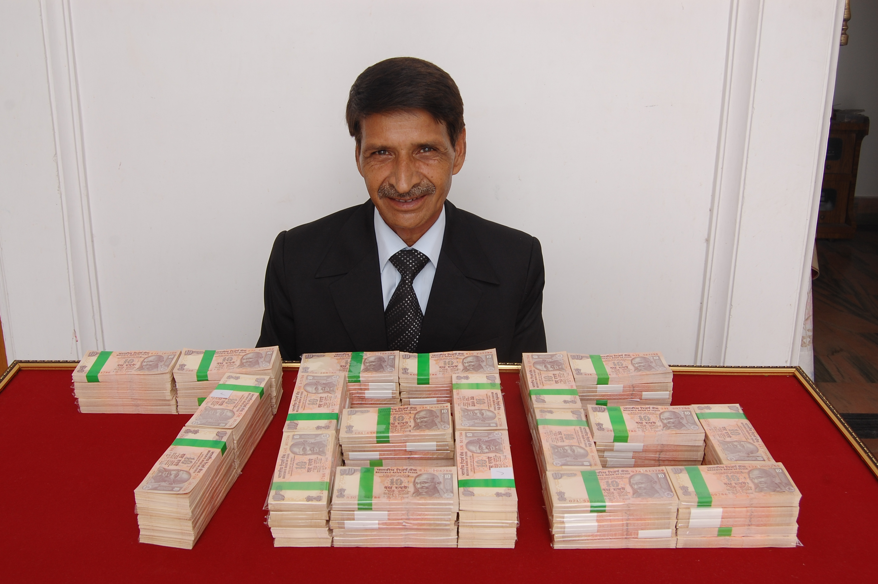 Vinay bhanawat 786 Indian Currency Note collection world records India - Rajasthan